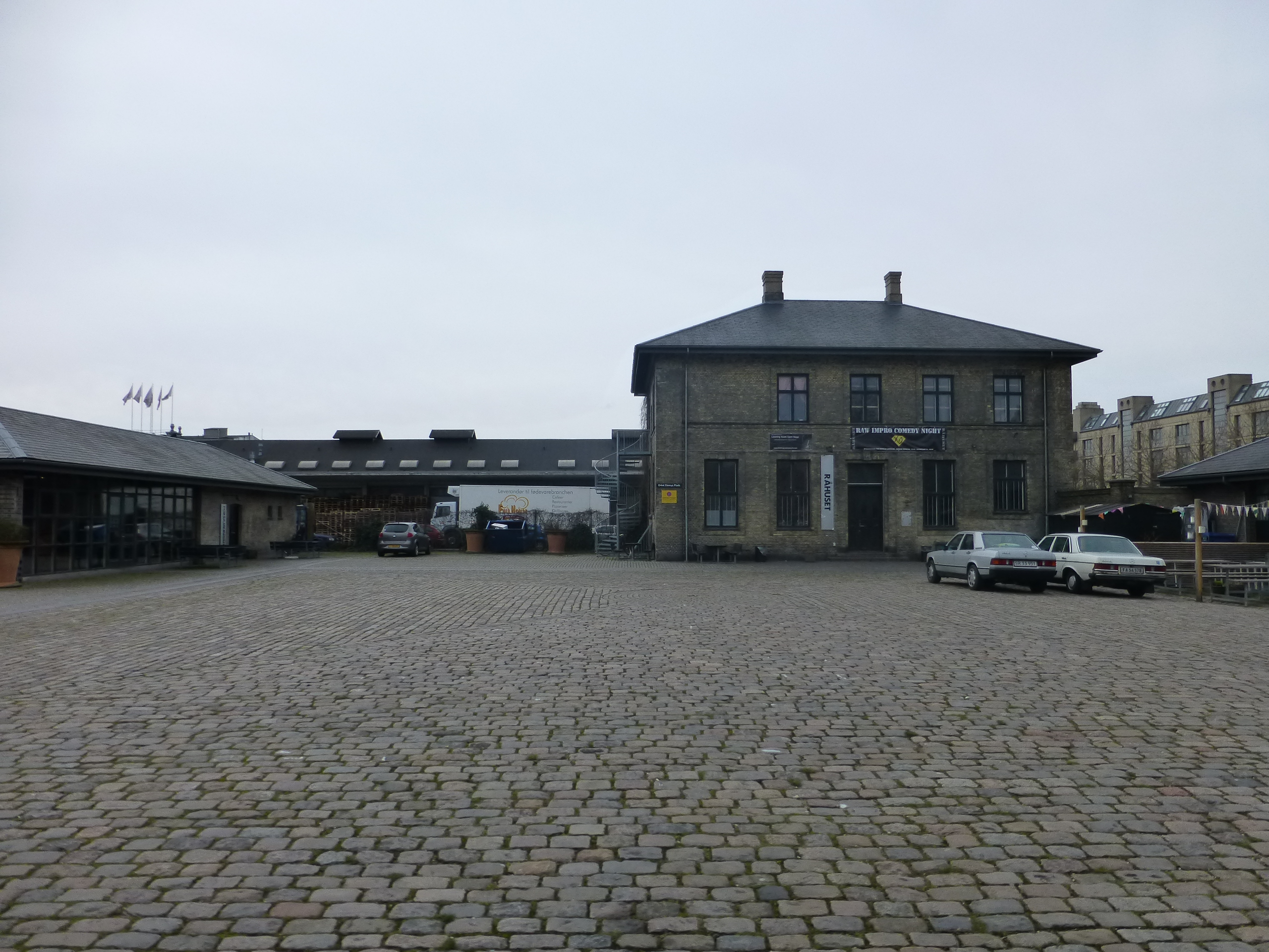 Onkel Dannys Plads is a square in Vesterbro in Copenhagen.